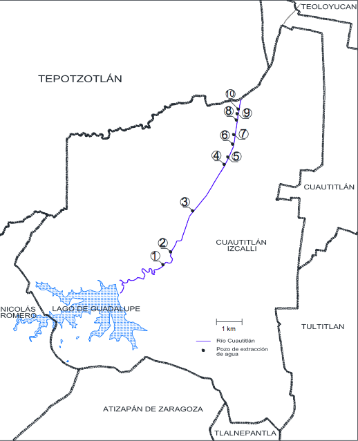 Pozos de extracción de agua